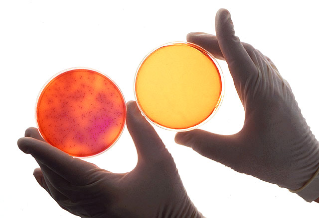 The petri dishes below show sterilization effects of negative air ionization on a chamber aerosolized with Salmonella enteritidis. The left sample is untreated; the right, treated.